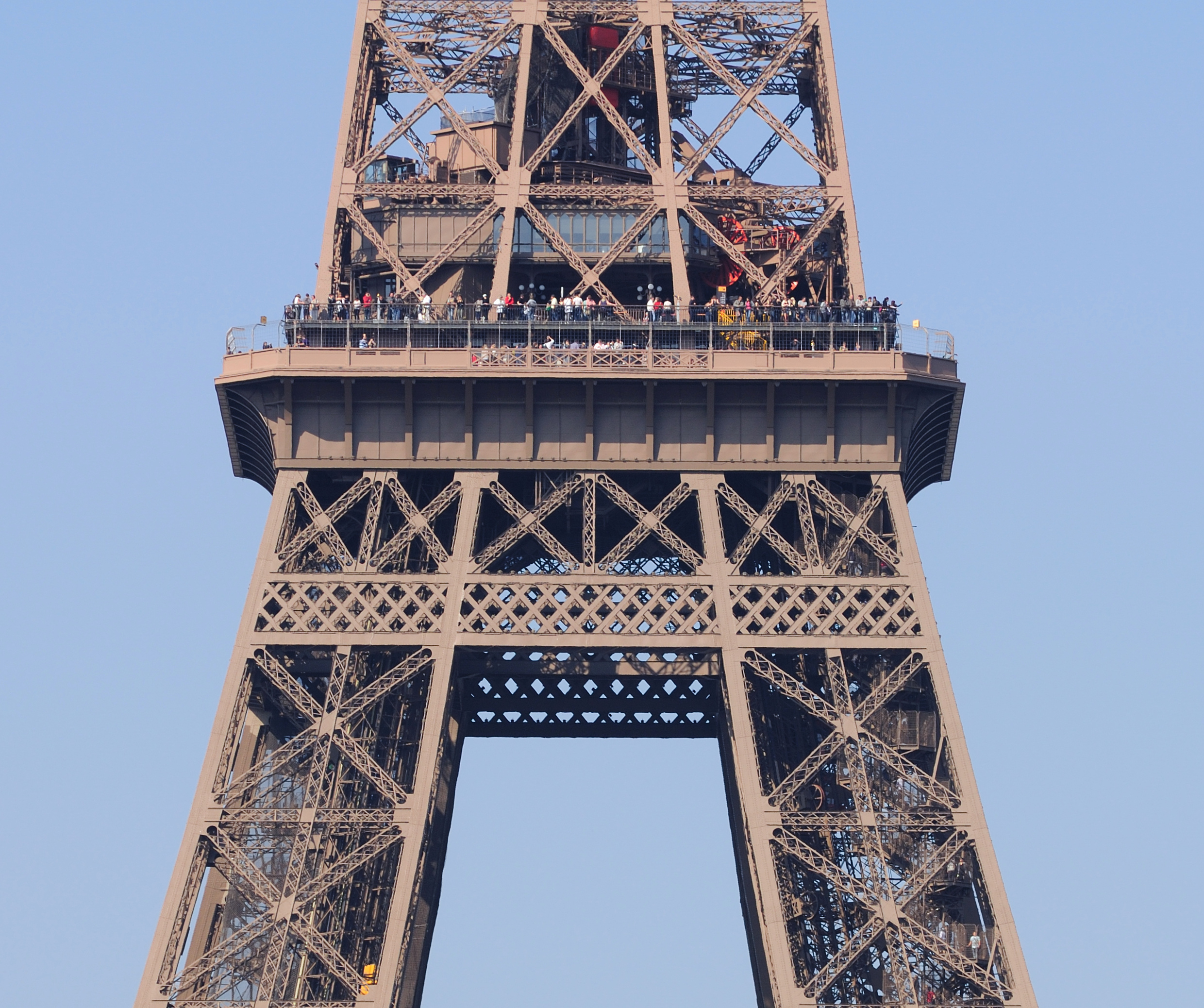 Eiffel Tower, Paris: second platform